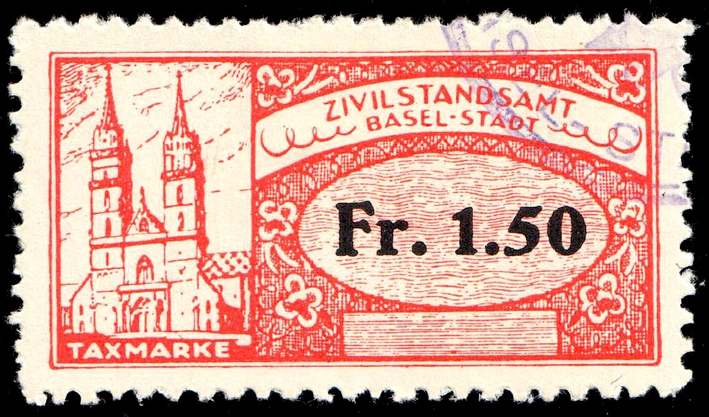 Switzerland Basel 1911 registry office revenue 1.50Fr - 4, perforated 11.5.